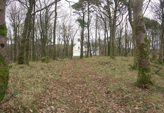 Kilmeny Parish Church, Islay.